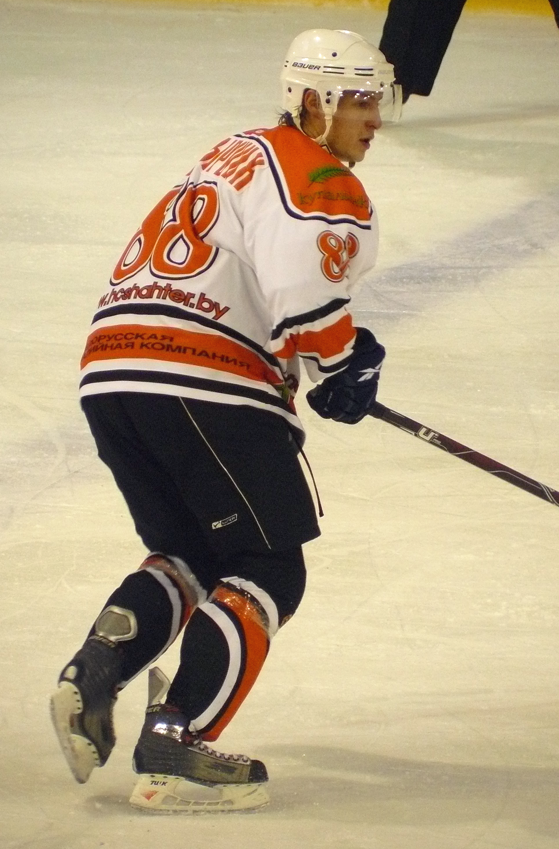 Forward Evgeni Kovyrshin #88 of the Shakhter Soligorsk during the Belarus Extraliga game against the Sokil Kyiv on January 4, 2011 at the Terminal Arena in Brovary, Ukraine. Sokil Kyiv won the game 3:2.